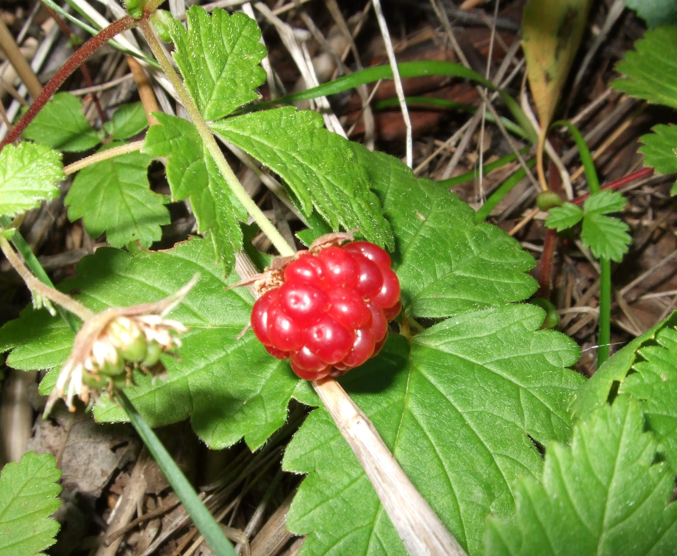 Berry of Rubus arcticus. Picture taken in Maxmo, Finland.